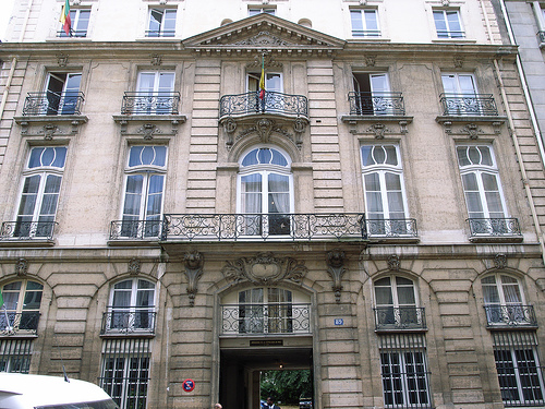 Embassy of Mali, 89 rue du Cherche-Midi (1757) by Claude Le Chauvre, Paris.